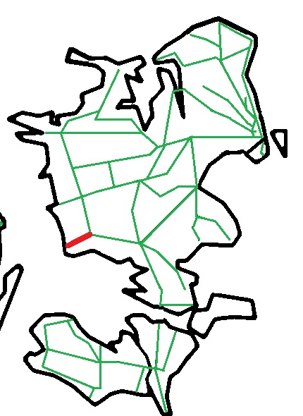 Map of railways on Zealand in Denmark with the state railway Skælskørbanen in red.